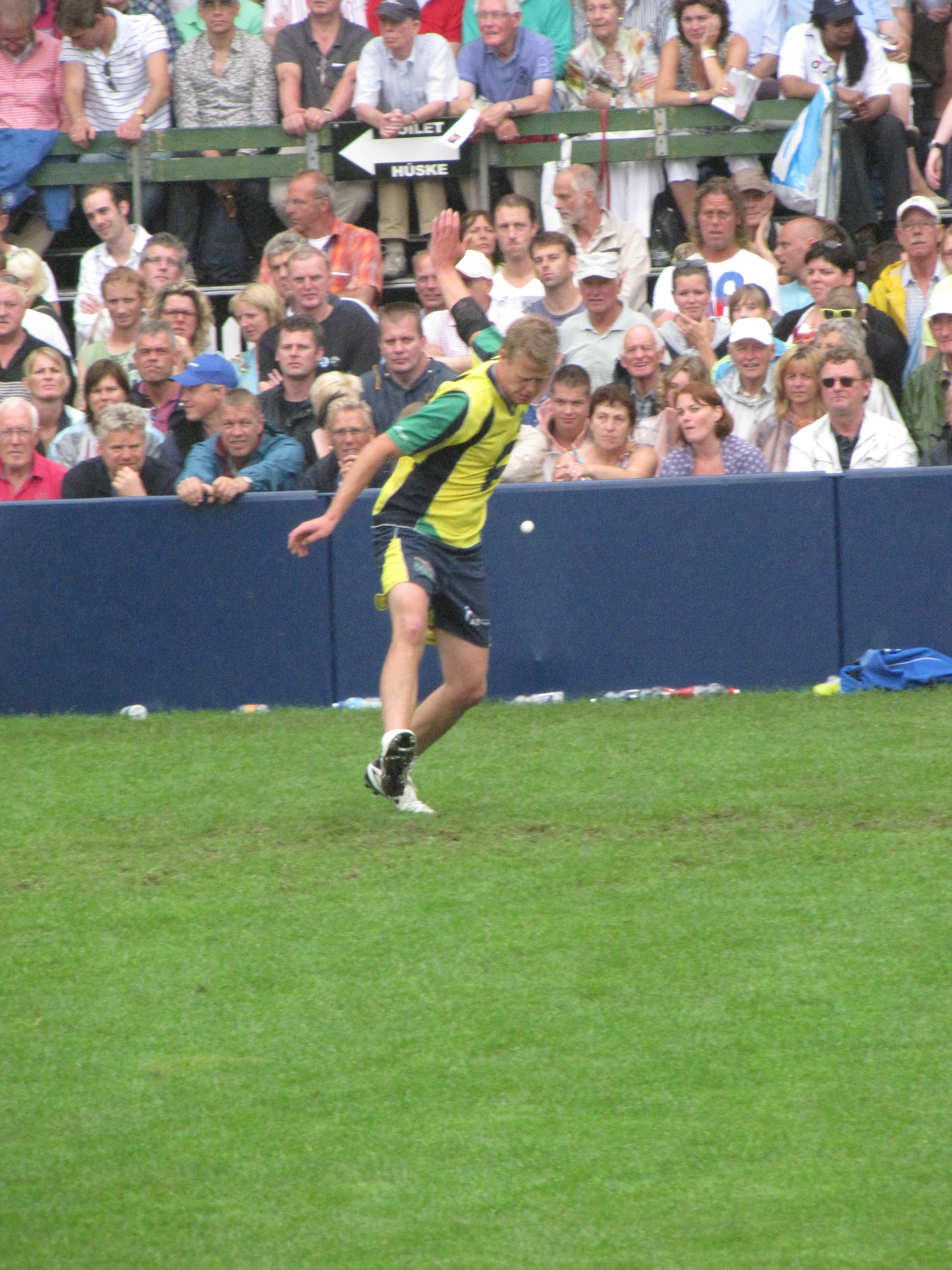 Jacob Zaagemans in action on the PC of 2011Frysk: Jacob Zaagemans yn aksje op de PC fan 2011